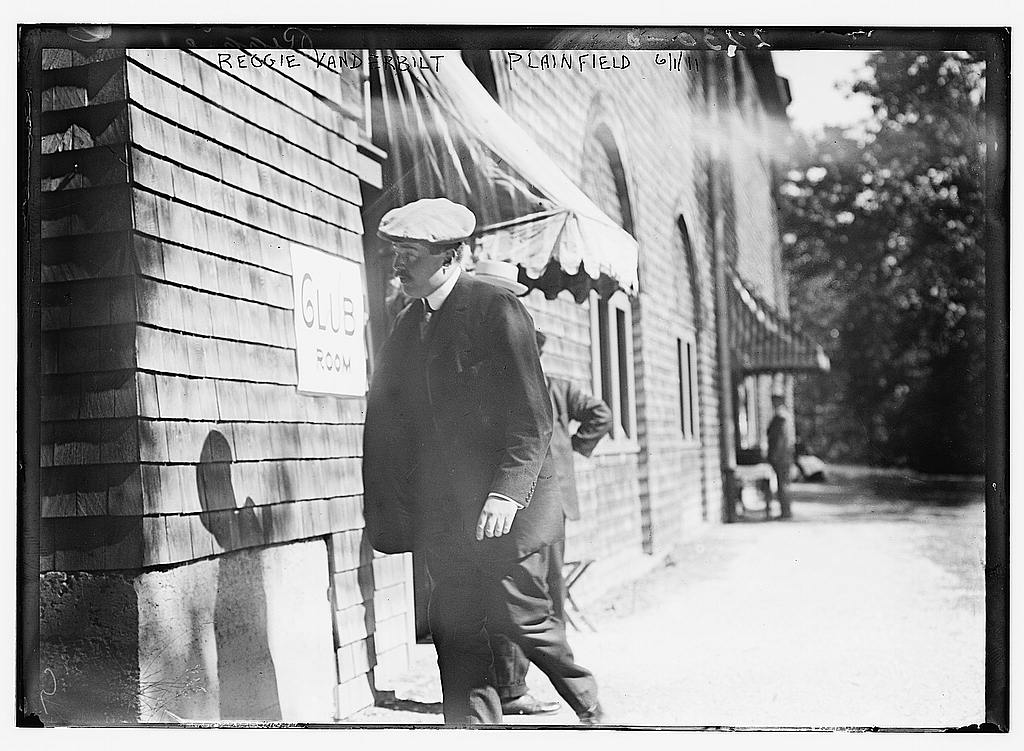 Bain News Service,, publisher. Reggie Vanderbilt in Plainfield in 1911 1911 (date created or published later by Bain) 1 negative : glass ; 5 x 7 in. or smaller. Notes: Title from unverified data provided by the Bain News Service on the negatives or caption cards. Forms part of: George Grantham Bain Collection (Library of Congress). Subjects: Plainfield Format: Glass negatives. Repository: Library of Congress, Prints and Photographs Division, Washington, D.C. 20540 USA, General information about the Bain Collection is available at Persistent URL: Call Number: LC-B2- 2230-8